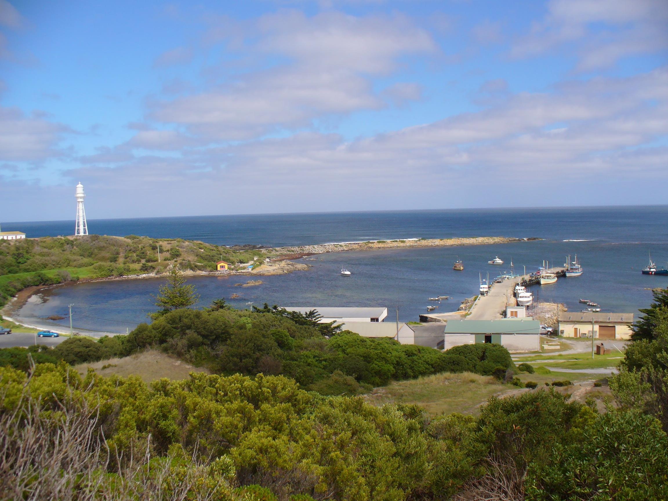 Currie, Tasmania harbour on King Island in Tasmania, Australia. Photo taken by Karl Barnfather 04/Feb/07